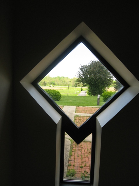 View through ISNA window, Plainfield, IN